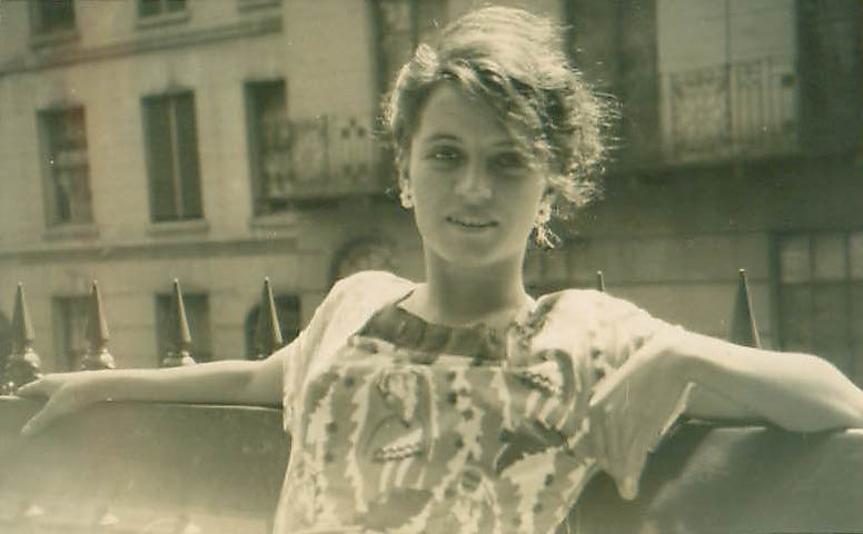 Mary White, Textile Designer, Tunbridge Wells